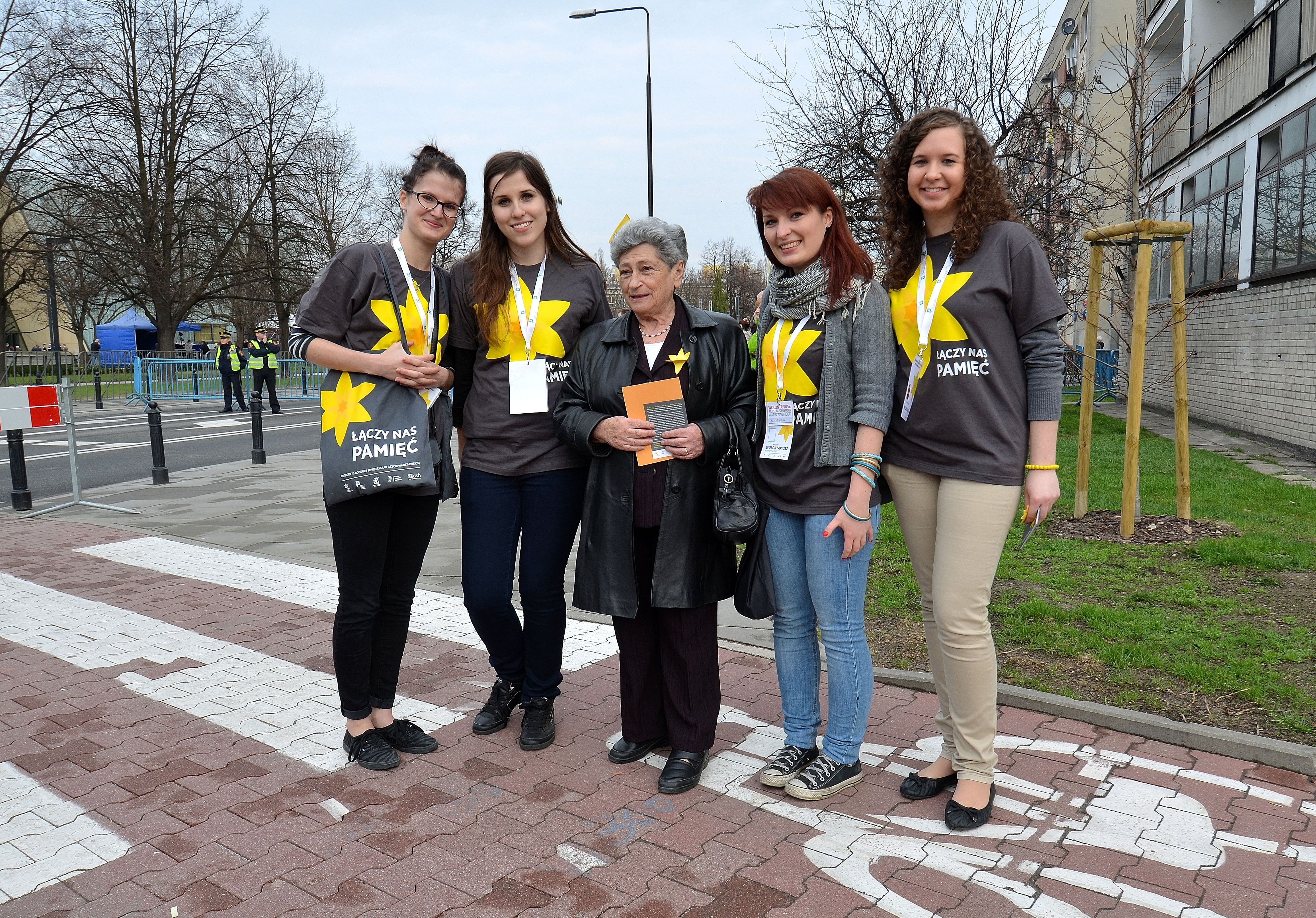 Operation "Daffodils" - a group of volunteers with Krystyna Budnicka